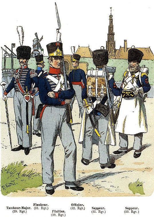 Uniforms of various soldiers in the Swiss regiments Nr. 29 to 32 in royal-dutch military service from 1815 to 1829, cropped version of File:Knoe04 39.jpg